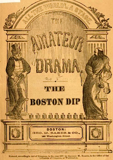 Cover of "The Boston Dip" by Baker. Engraved by Kilburn & Mallory